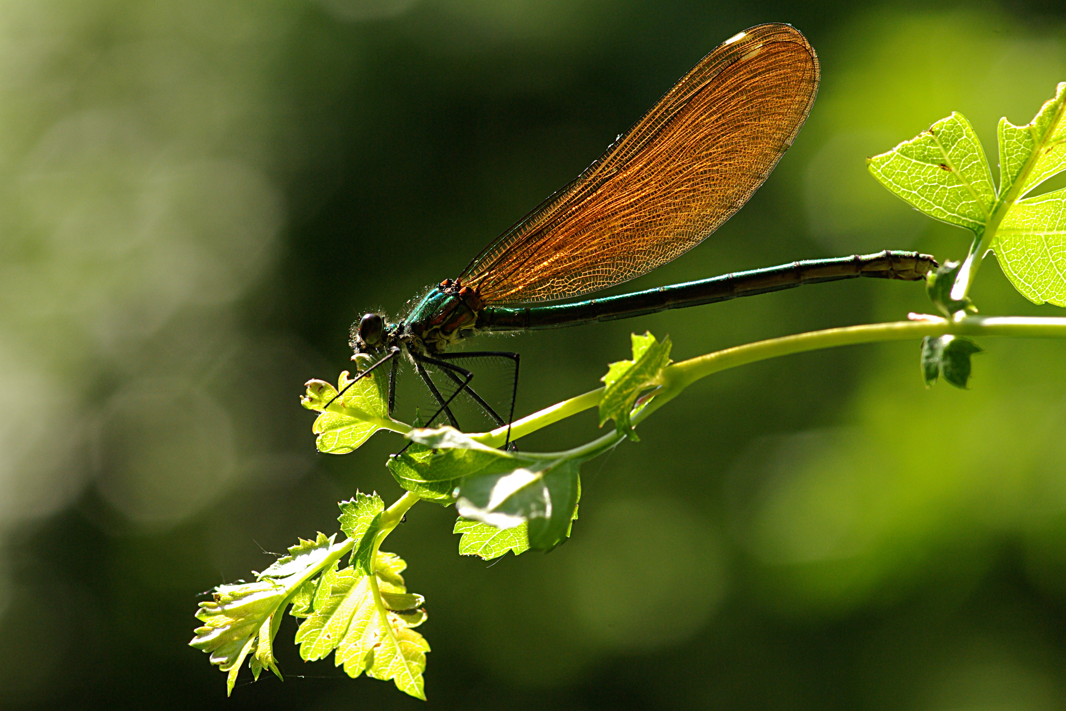 Calopterix virgo female, in Normandie.